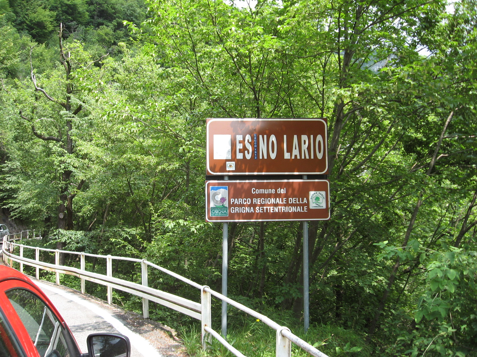 Sign of the Parco Regionale della Grigna Settentrionale and village Esino Lario